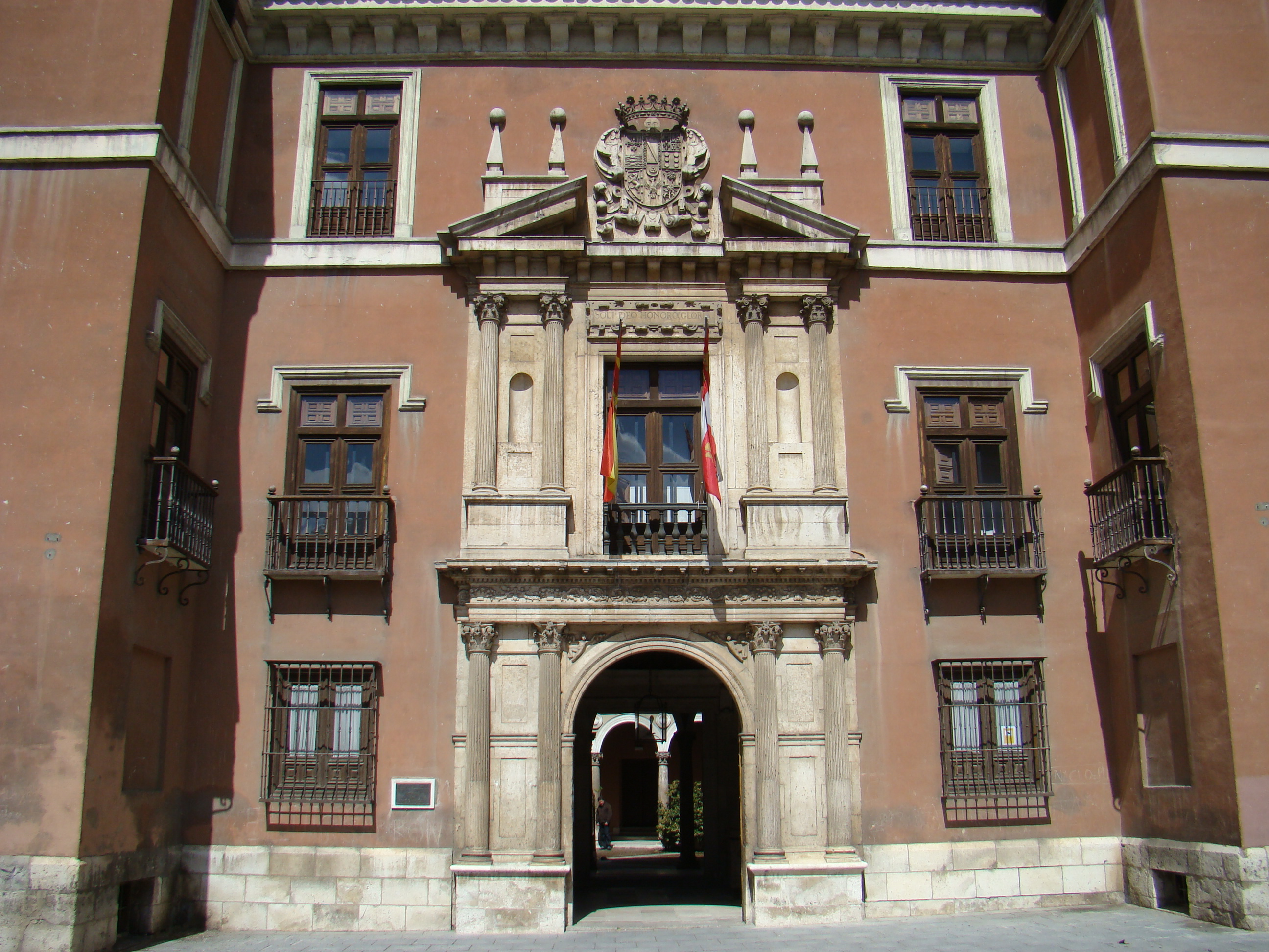 Classicist palace named Fabio Nelli in Valladolid, Spain. Gateway, author Pedro de Mazuecos el Mozo. View from the front.